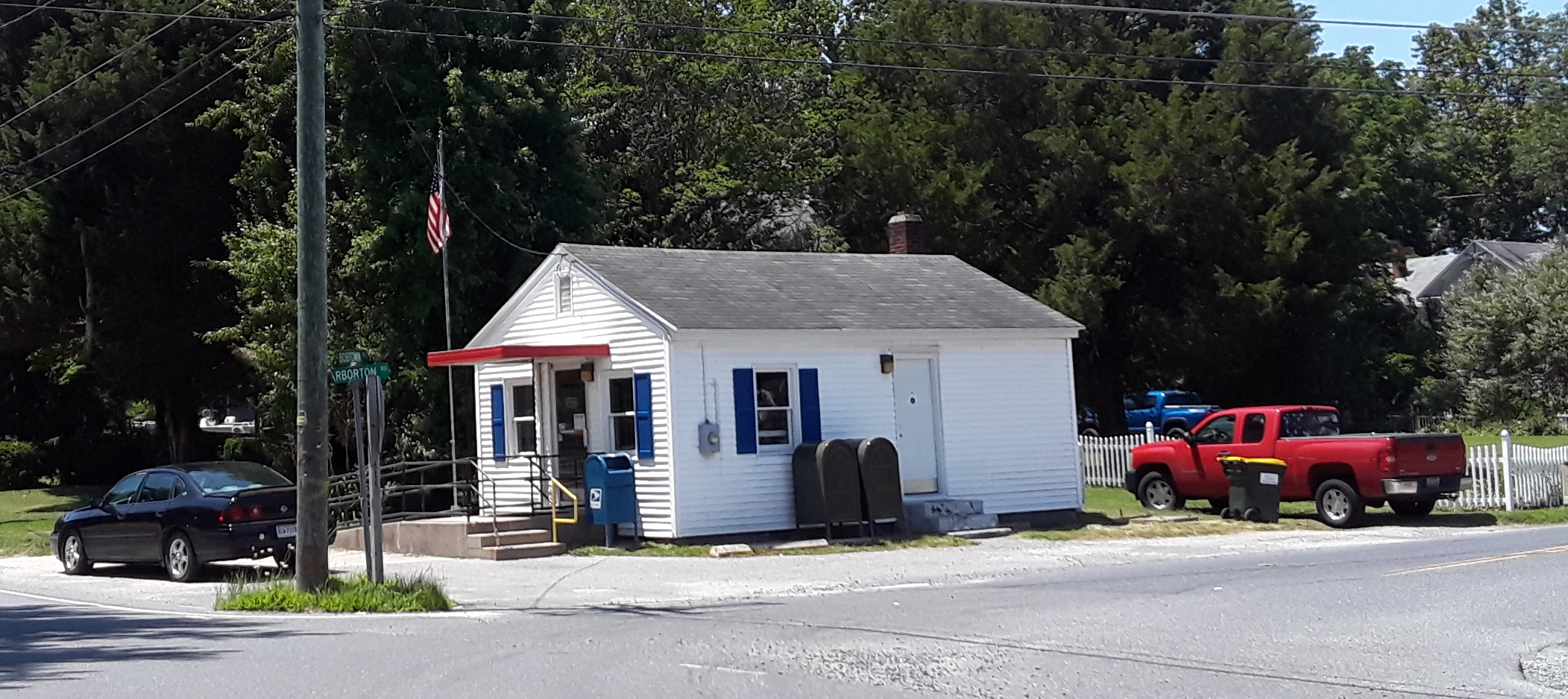 Taken on a visit to the Eastern Shore of Virginia, July 2018